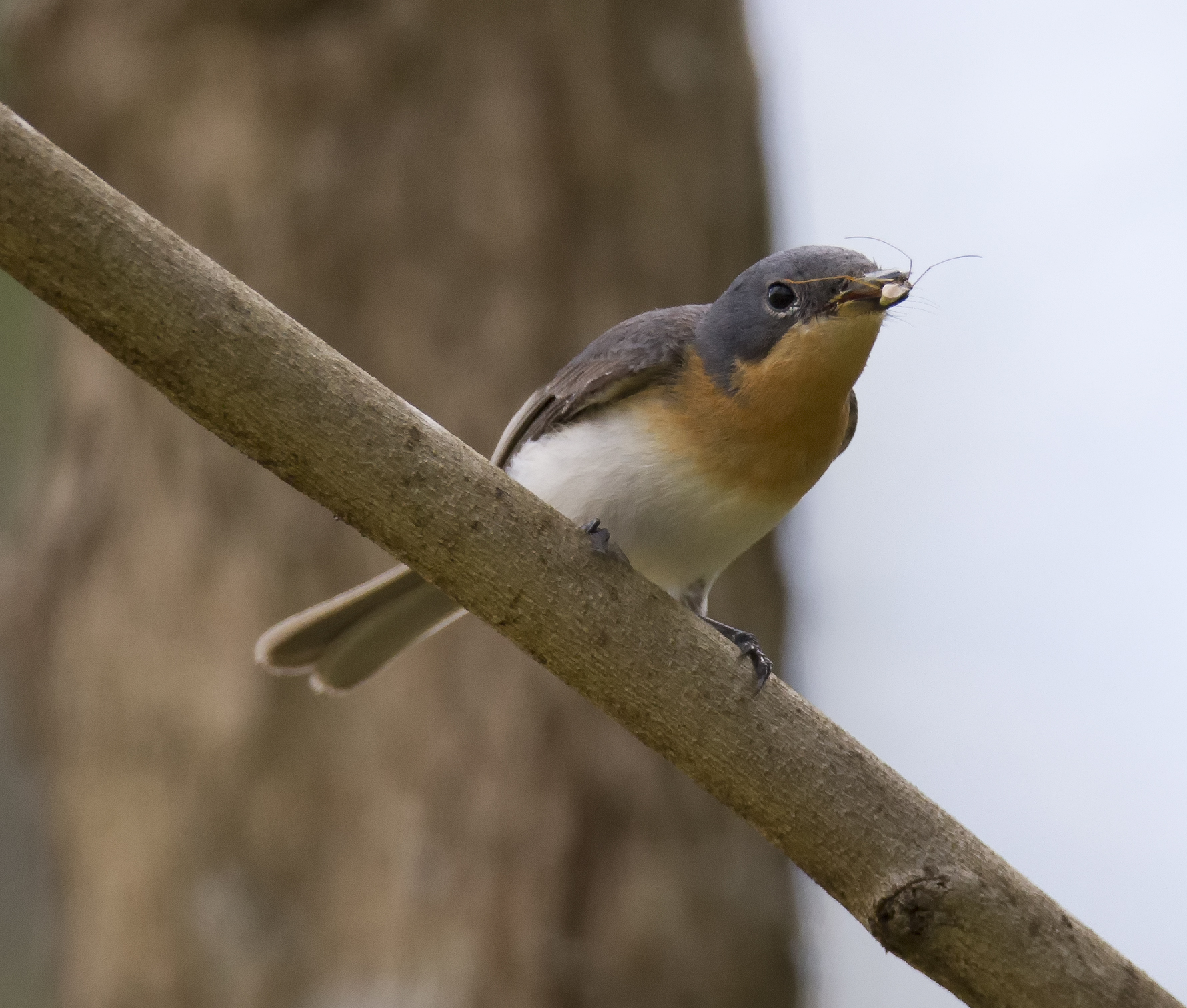 Female of Leaden Flycatcher (Myiagra rubecula) with prey. North Queensland, Australia